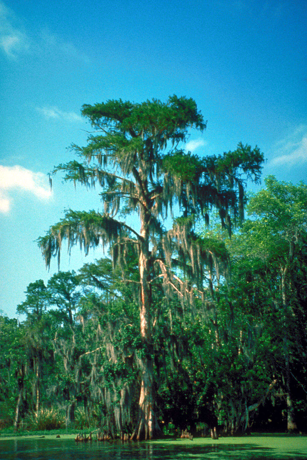 A bald cypress (Taxodium distichum) in the Atchafalaya Basin. Louisiana, USA.